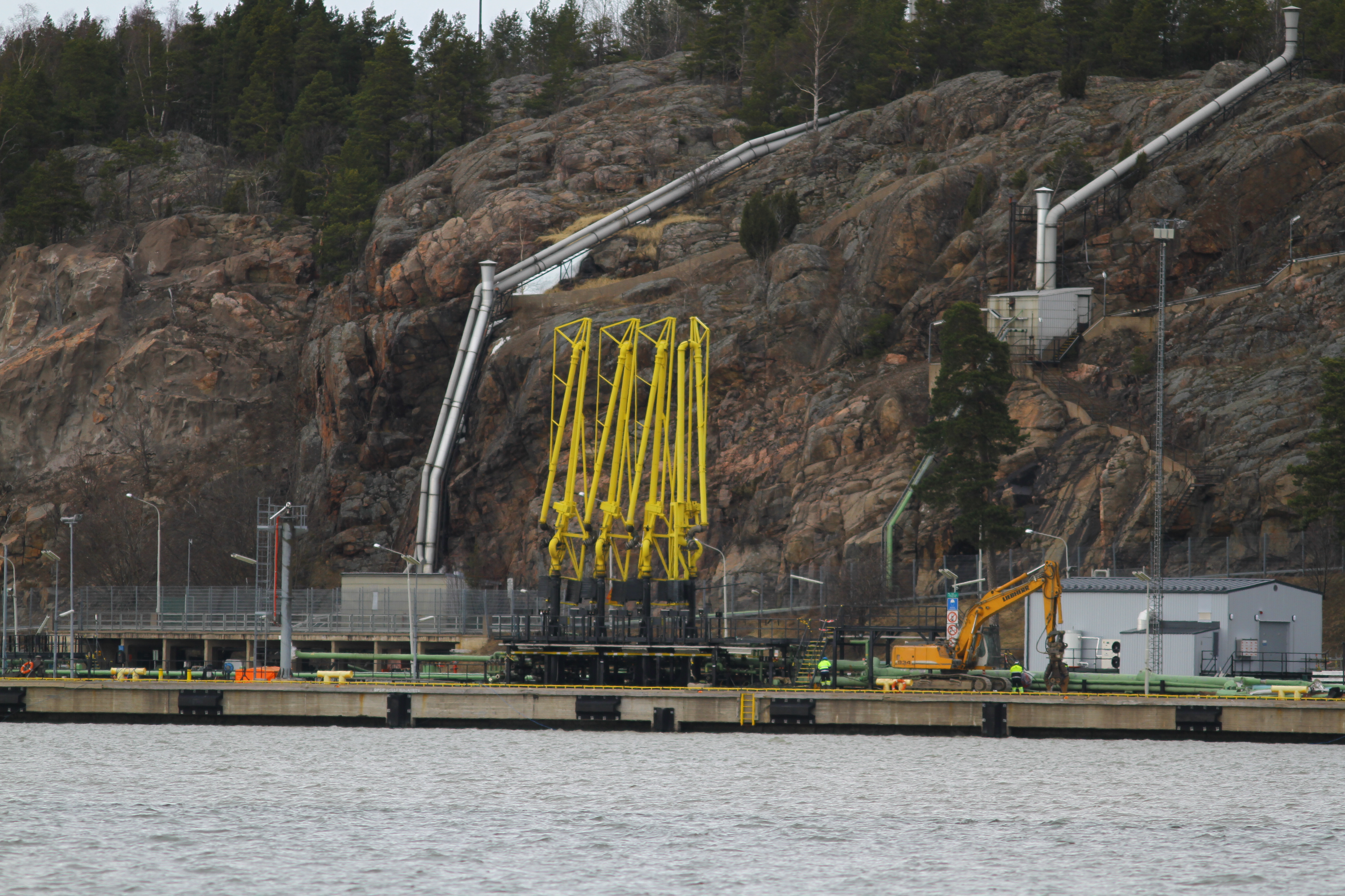 Tupavuori Tank Area. Neste Oil's Naantali refinery is located at Naantali in western Finland, close to Turku.